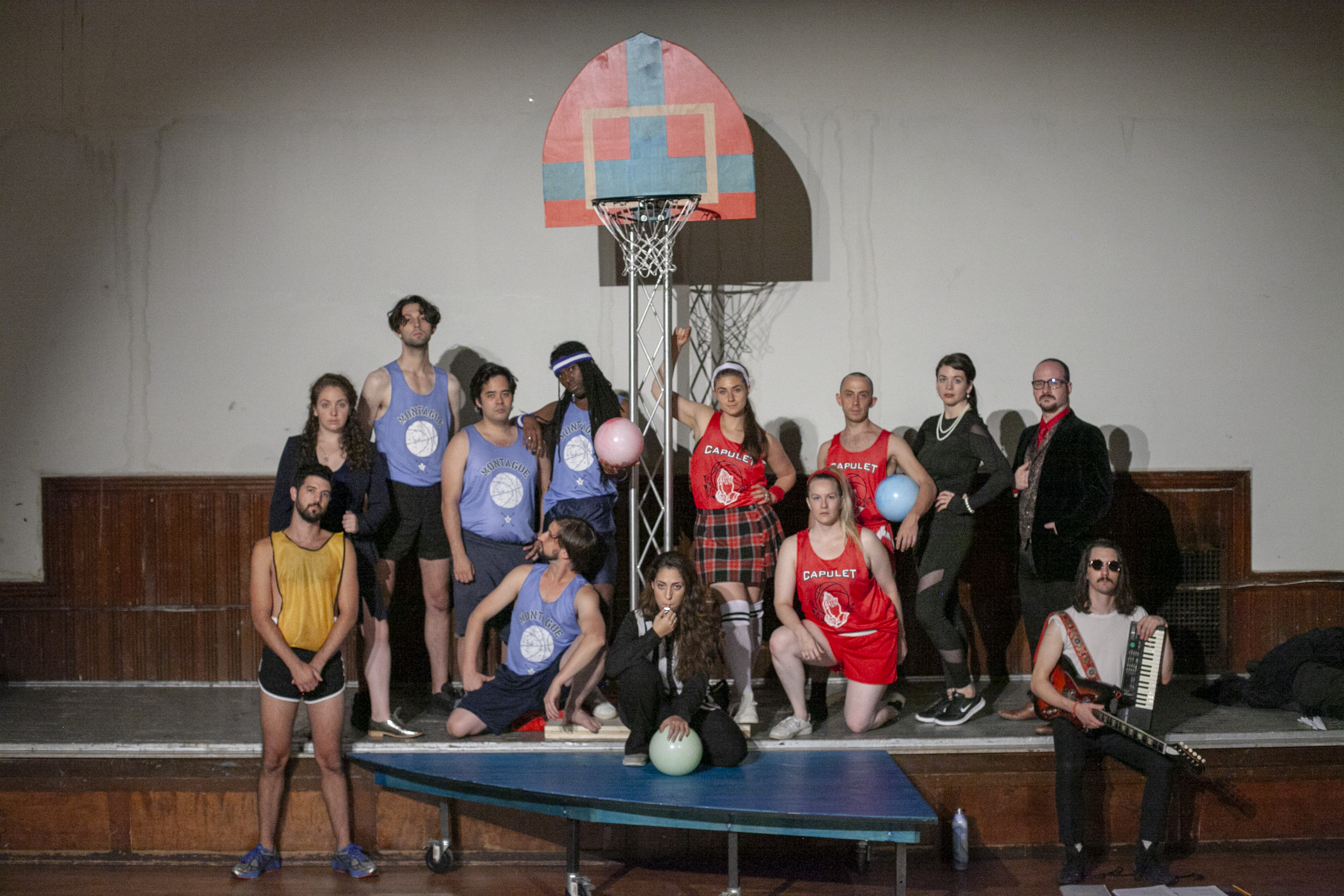 Stairwell Theater presents Romeo & Juliet - 2018, Brooklyn, NYC - directed by Sam Gibbs with a basketball team theme